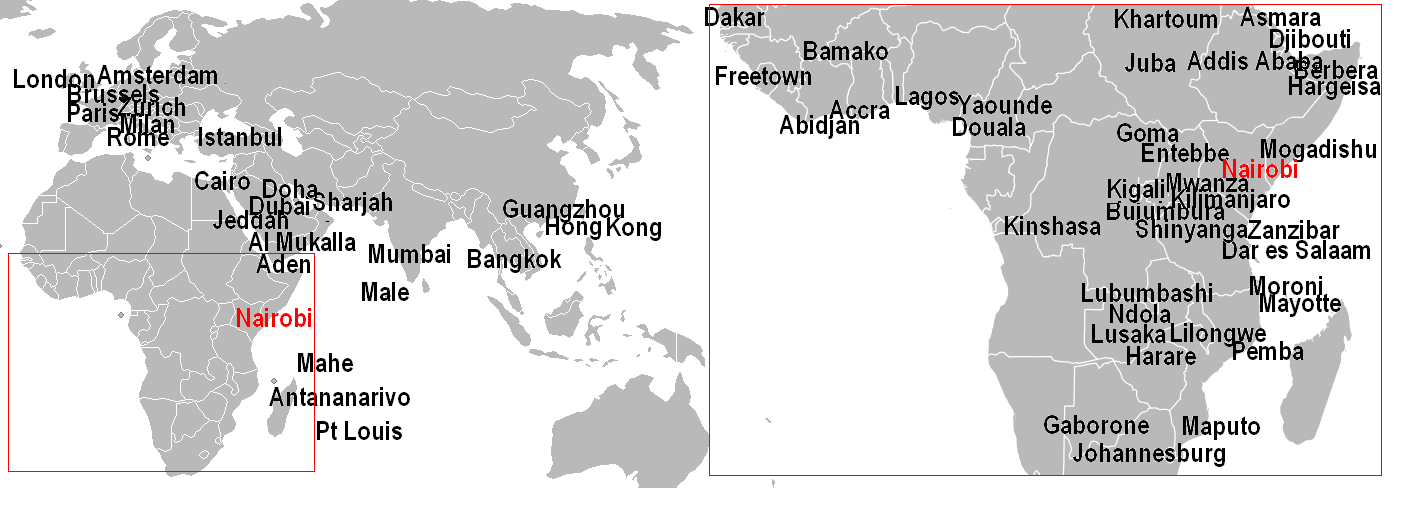 Cities with a direct international link to NAI